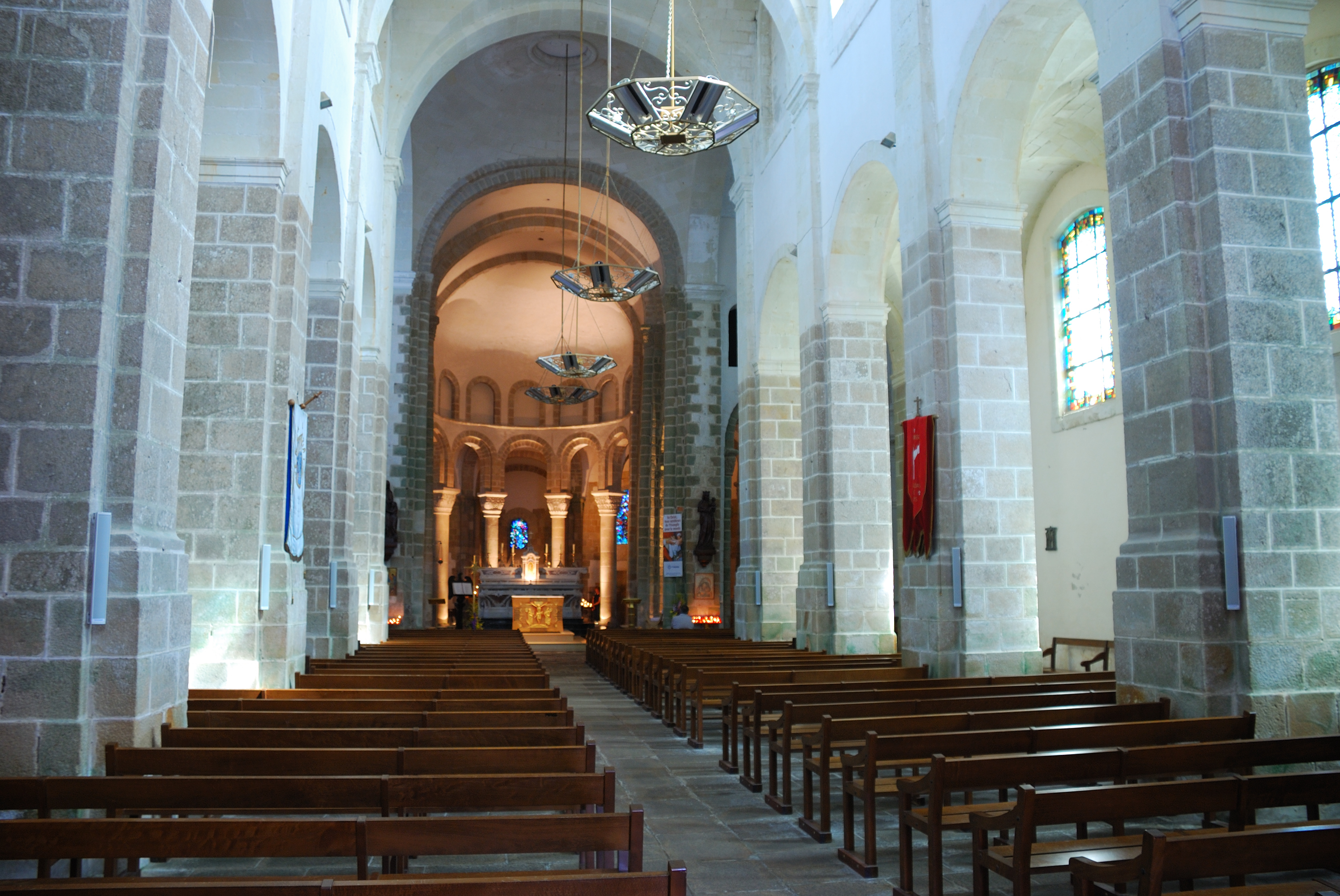 Saint-Gildas-de-Rhuys: abbey-church (Morbihan, France)